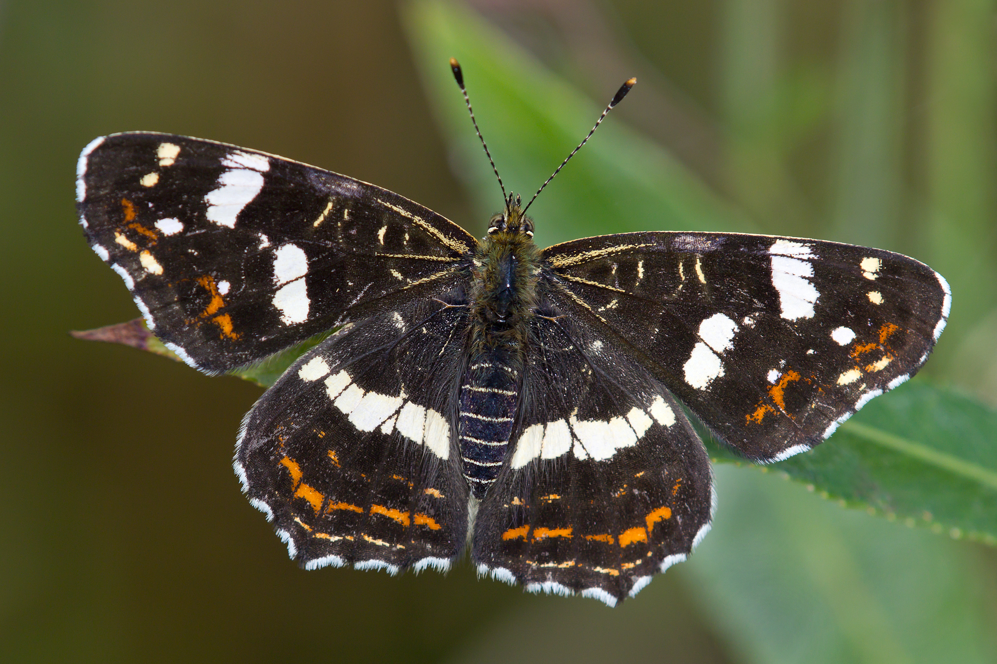 The butterfly Map, Araschnia levana – specimen of the summer generation (forma prorsa).